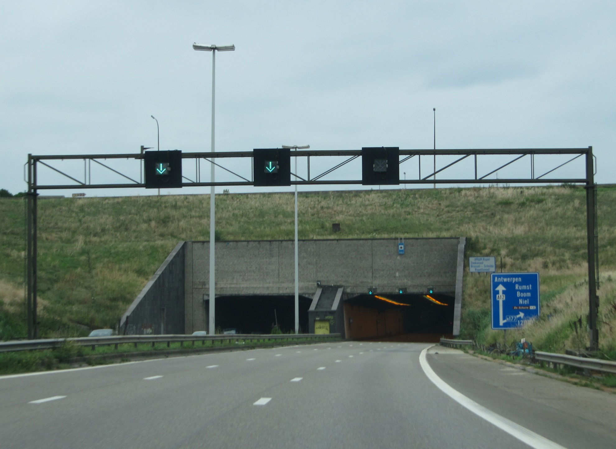 Rupeltunnel A12